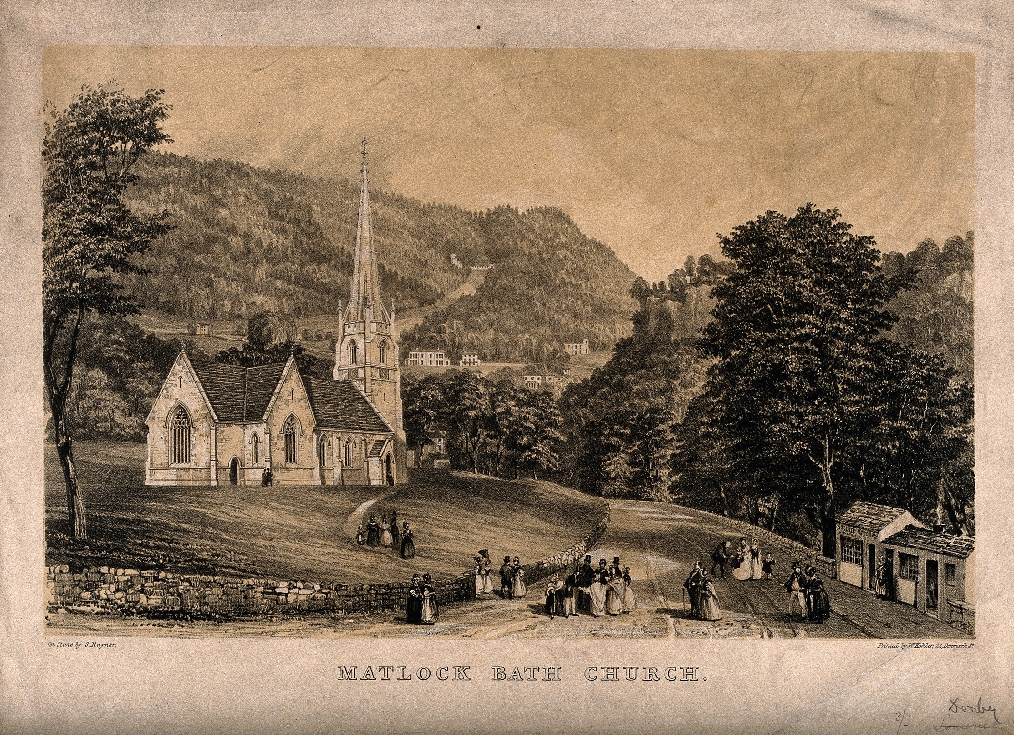 View north along Derby Road, Matlock Bath, Derbyshire, with Holy Trinity parish church on the left Iconographic Collections